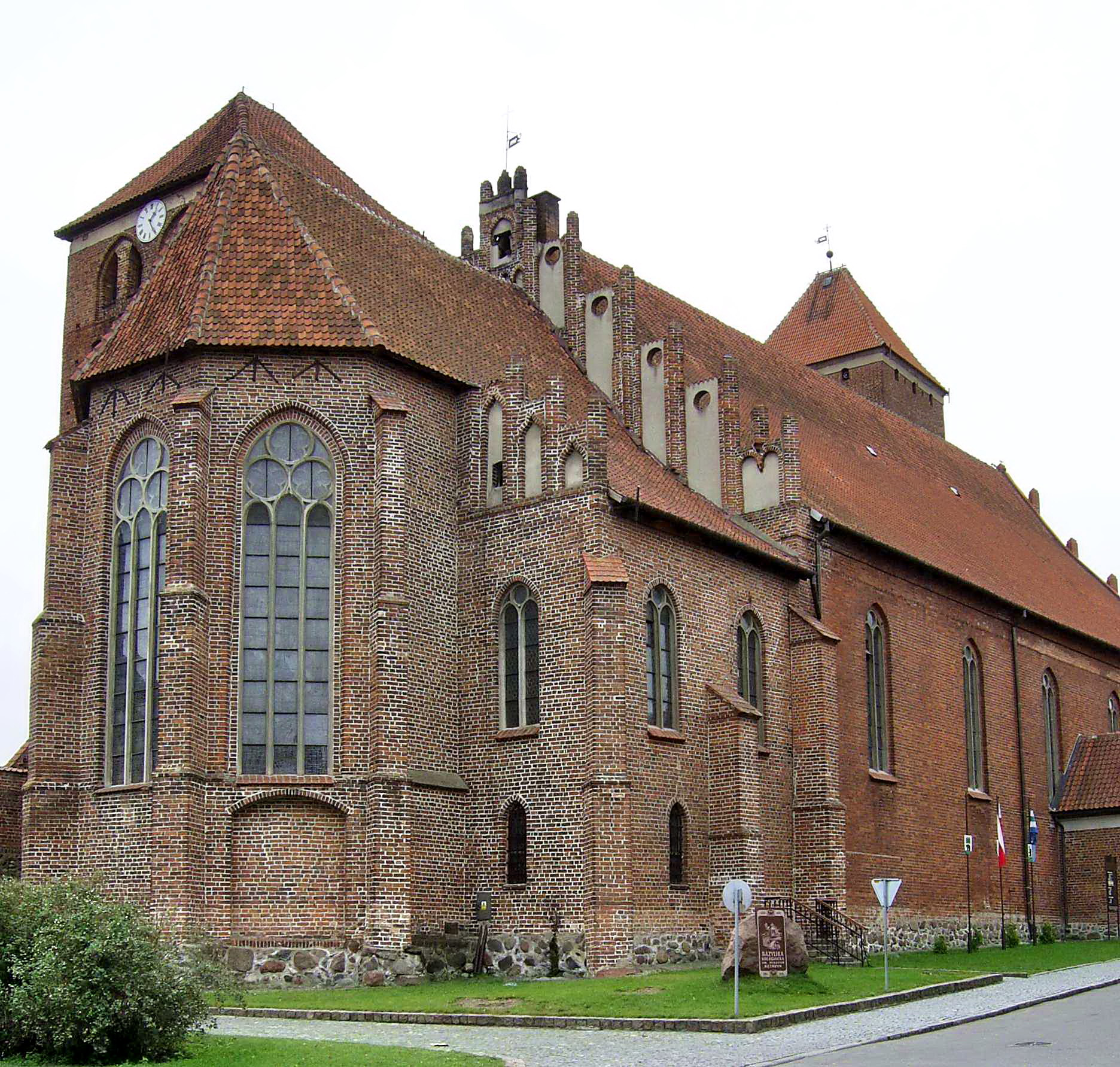 St. James church in Kętrzyn.